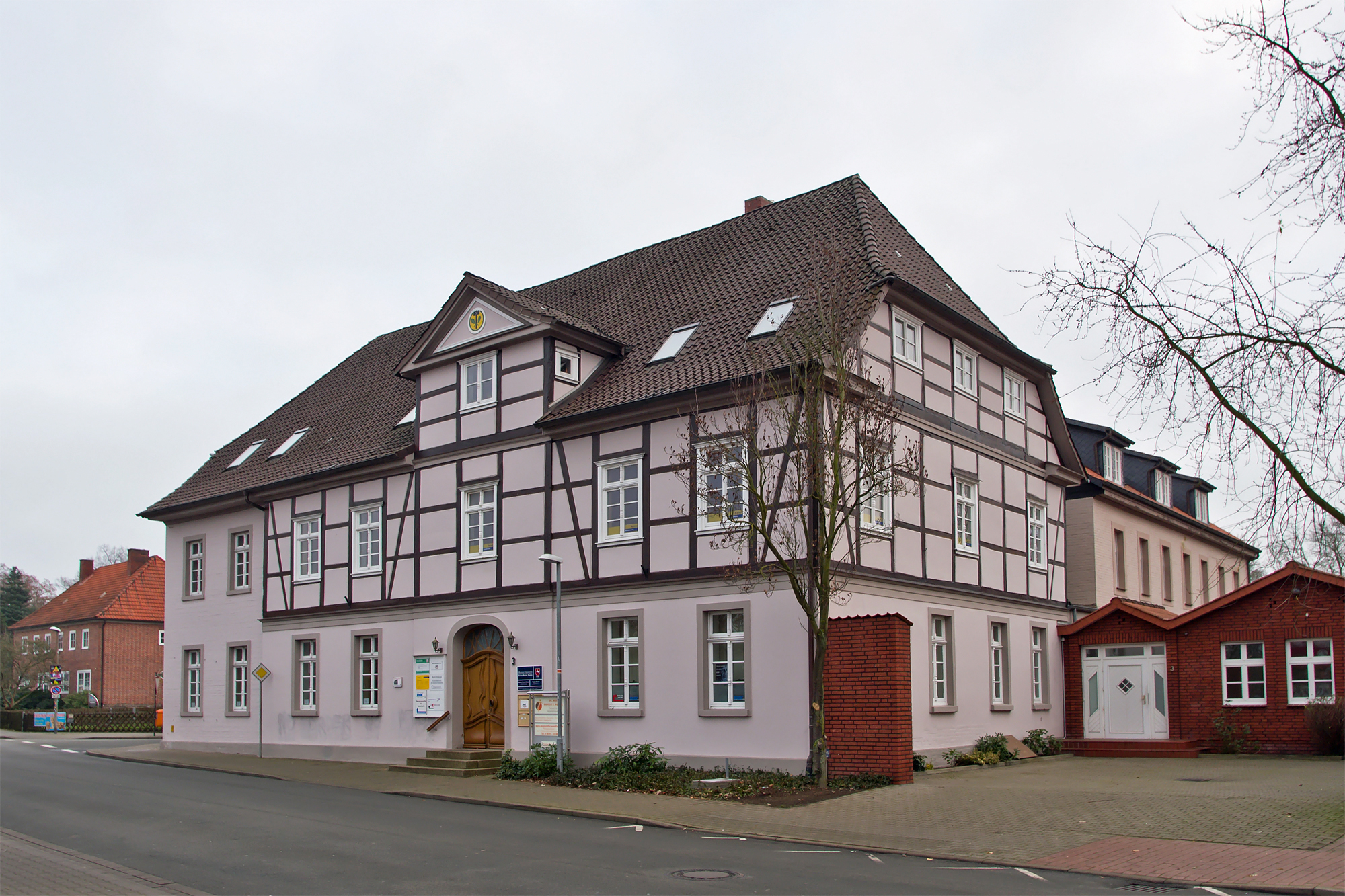 Former court house in the small town Lüchow (district Lüchow-Dannenberg, northern Germany).